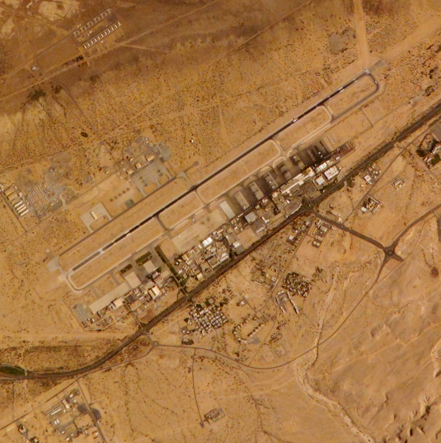 Muscat Airport in 2002 from space